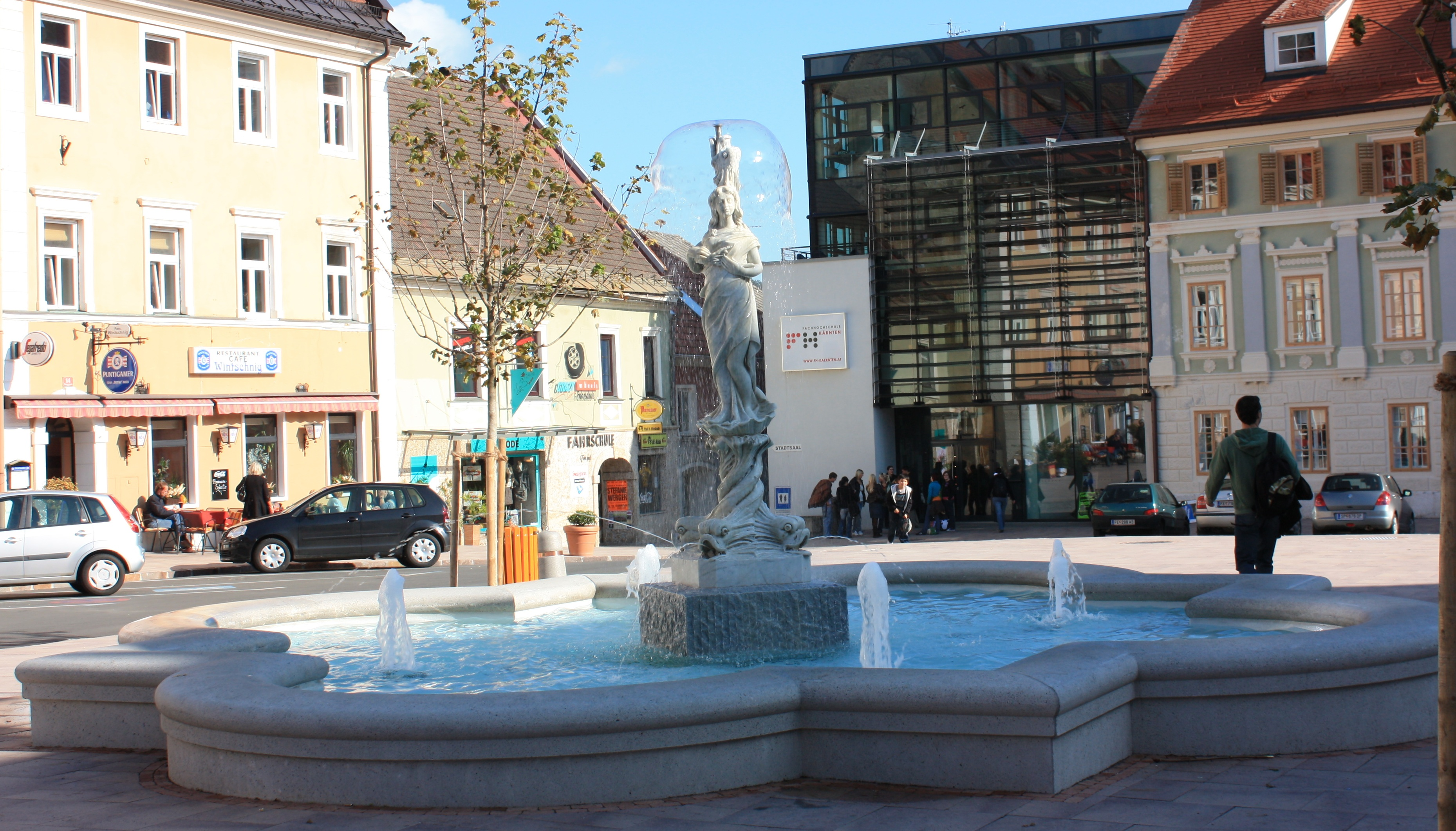 Nymph fountain Locality: Main square Community:Feldkirchen in Kärnten